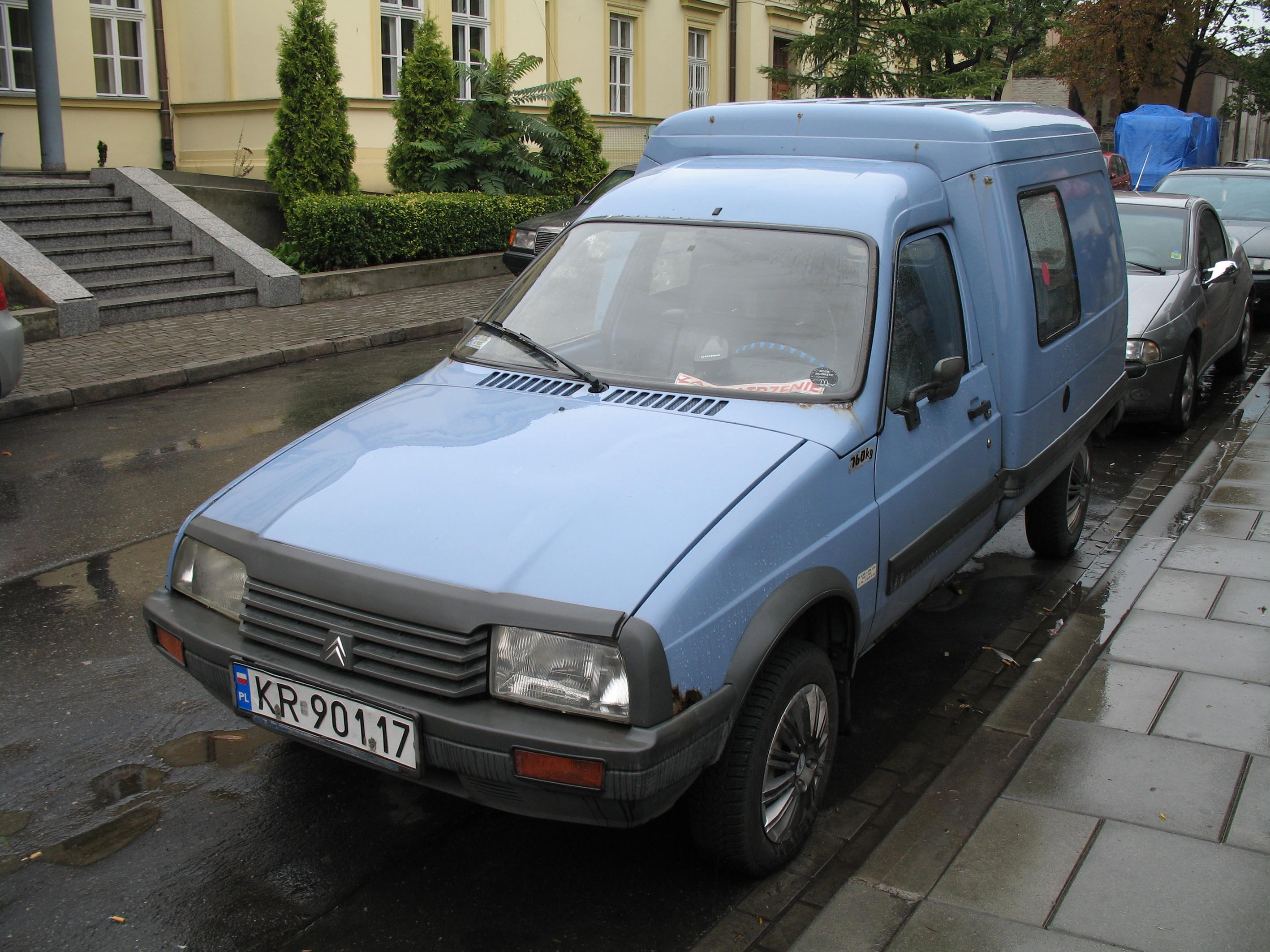 Citroën C15D in Kraków, Poland.